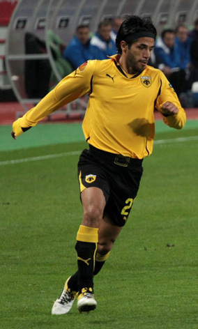 Fabián Andrés Vargas (2011-10-20)